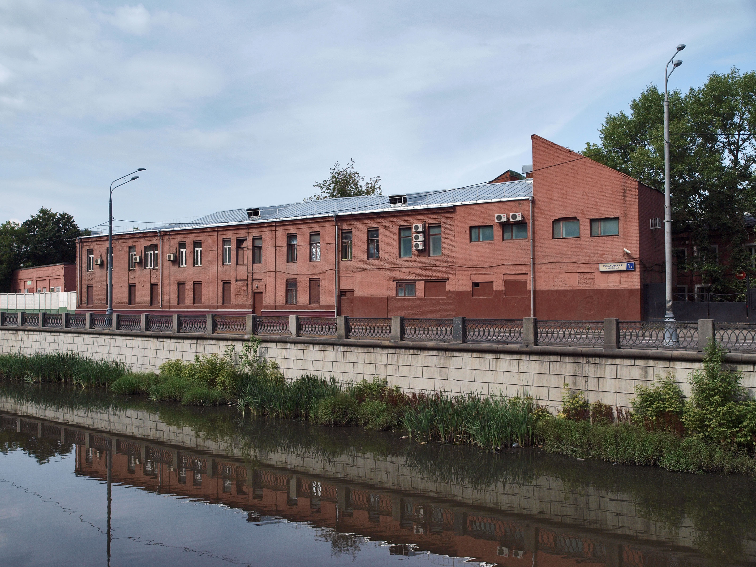 Rusakov tram depot. Rusakovskaya embankment of the Yauza river, Moscow.